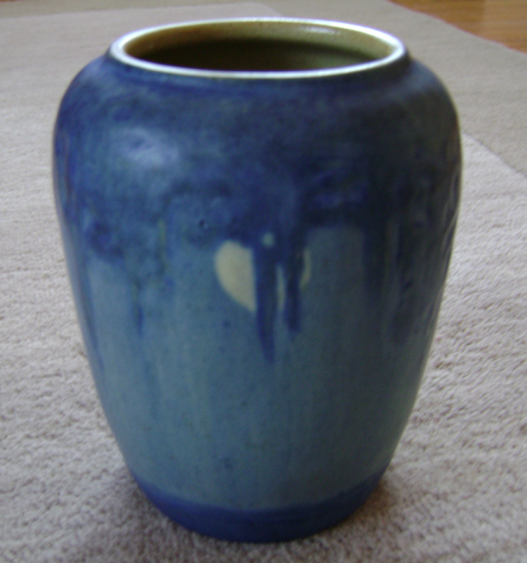 Aurelia Arbo Moon & Moss Newcomb Vase Summary Aurelia Arbo Moon & Moss Newcomb Vase